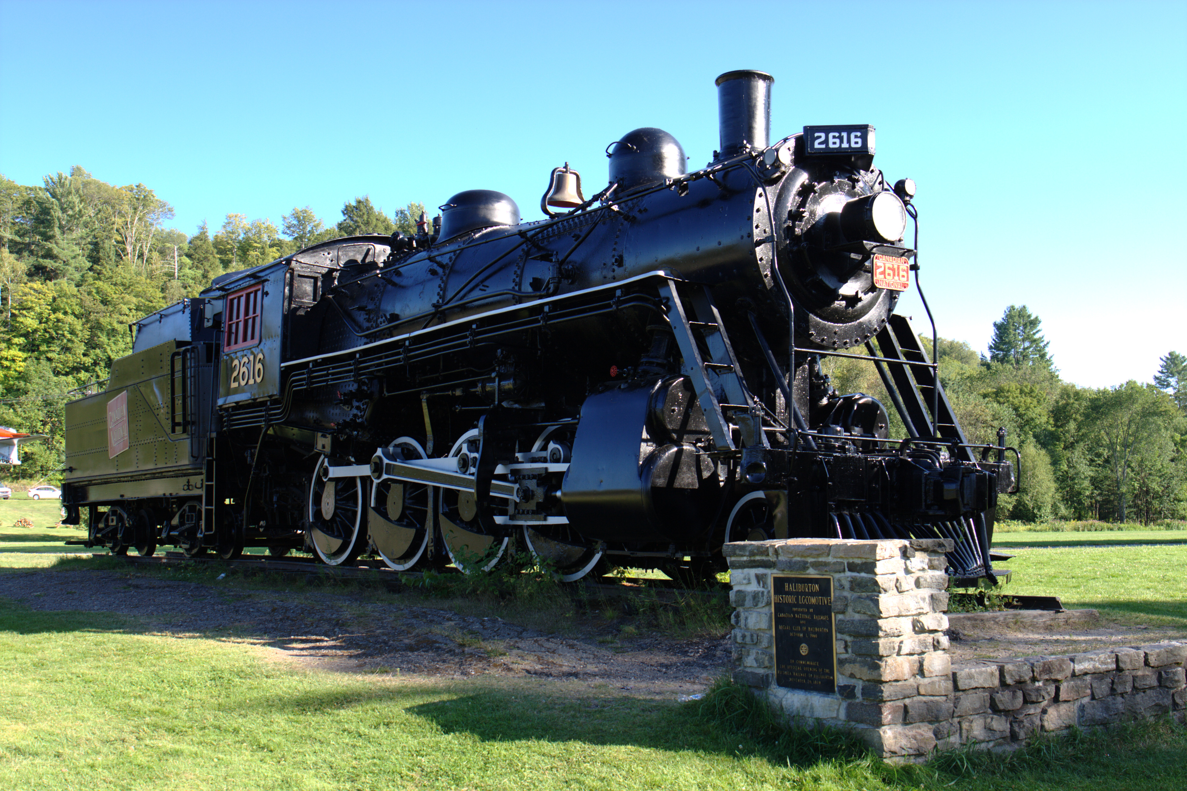 A Canadian National Railways N4A 2-8-0 steam locomotive on display at Head Lake, Haliburton, Ontario